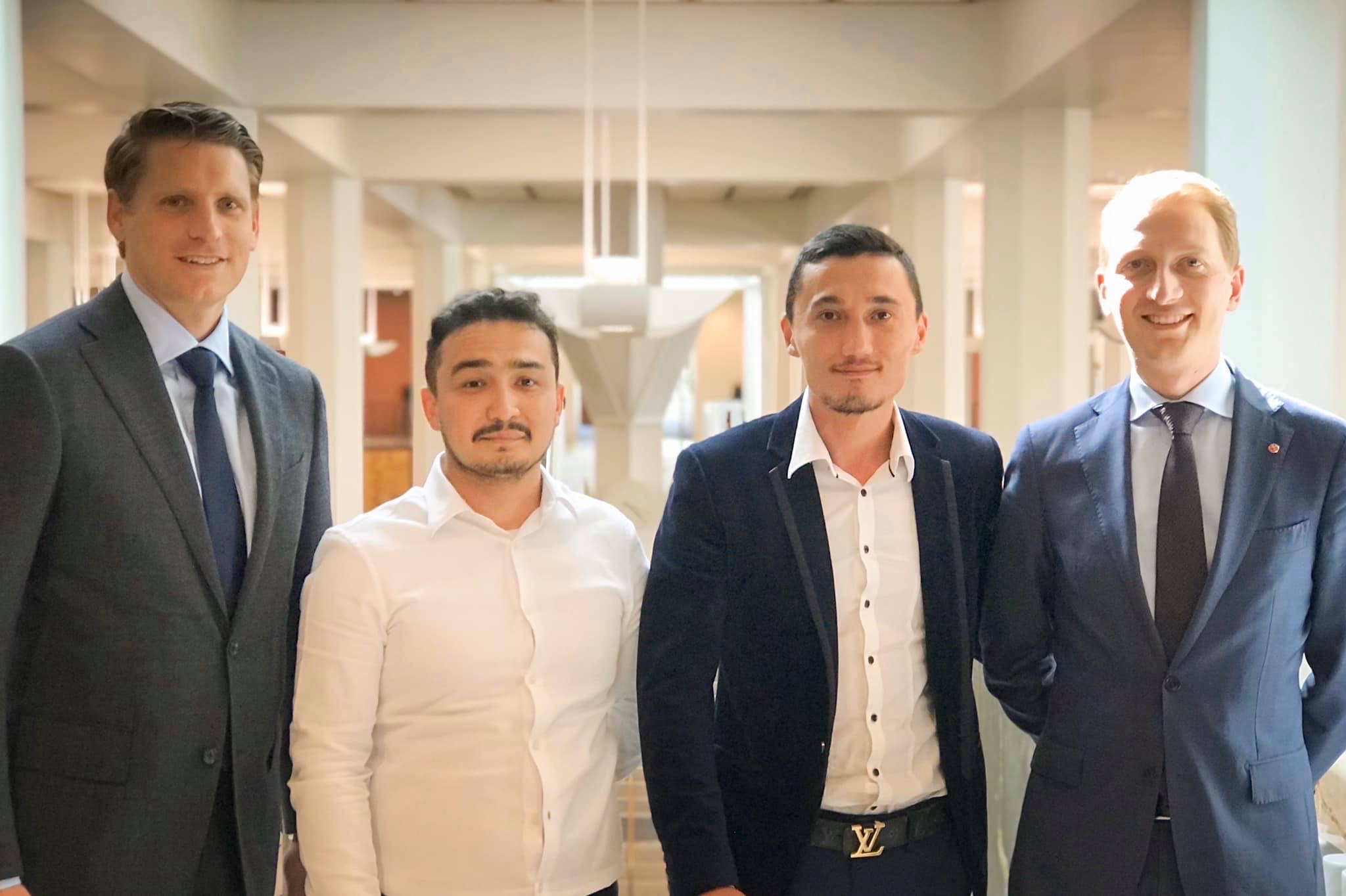 The member for Canning, Andrew Hastie MP with Huyghur delegates and Victorian Senator James Paterson at Parliament House, Canberra, 30 November 2019